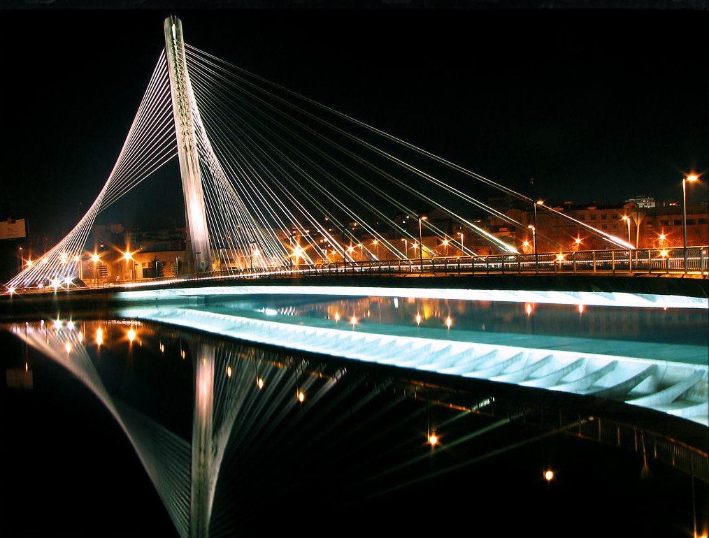 Bridge over Lerez waters (Puente de los Tirantes), Pontevedra, Spain